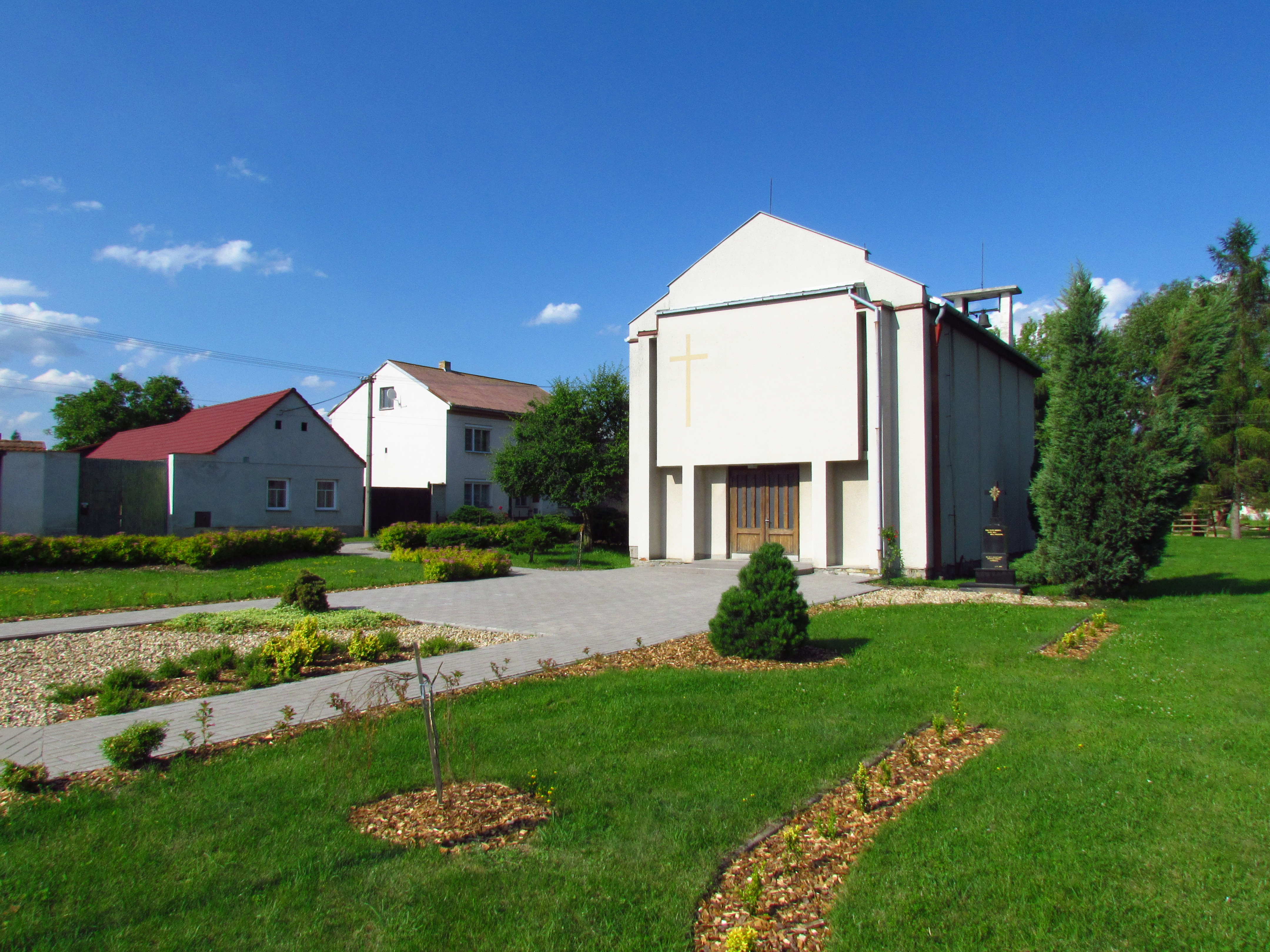 Overview of Chapel Piux X. in Litovany, Třebíč District.